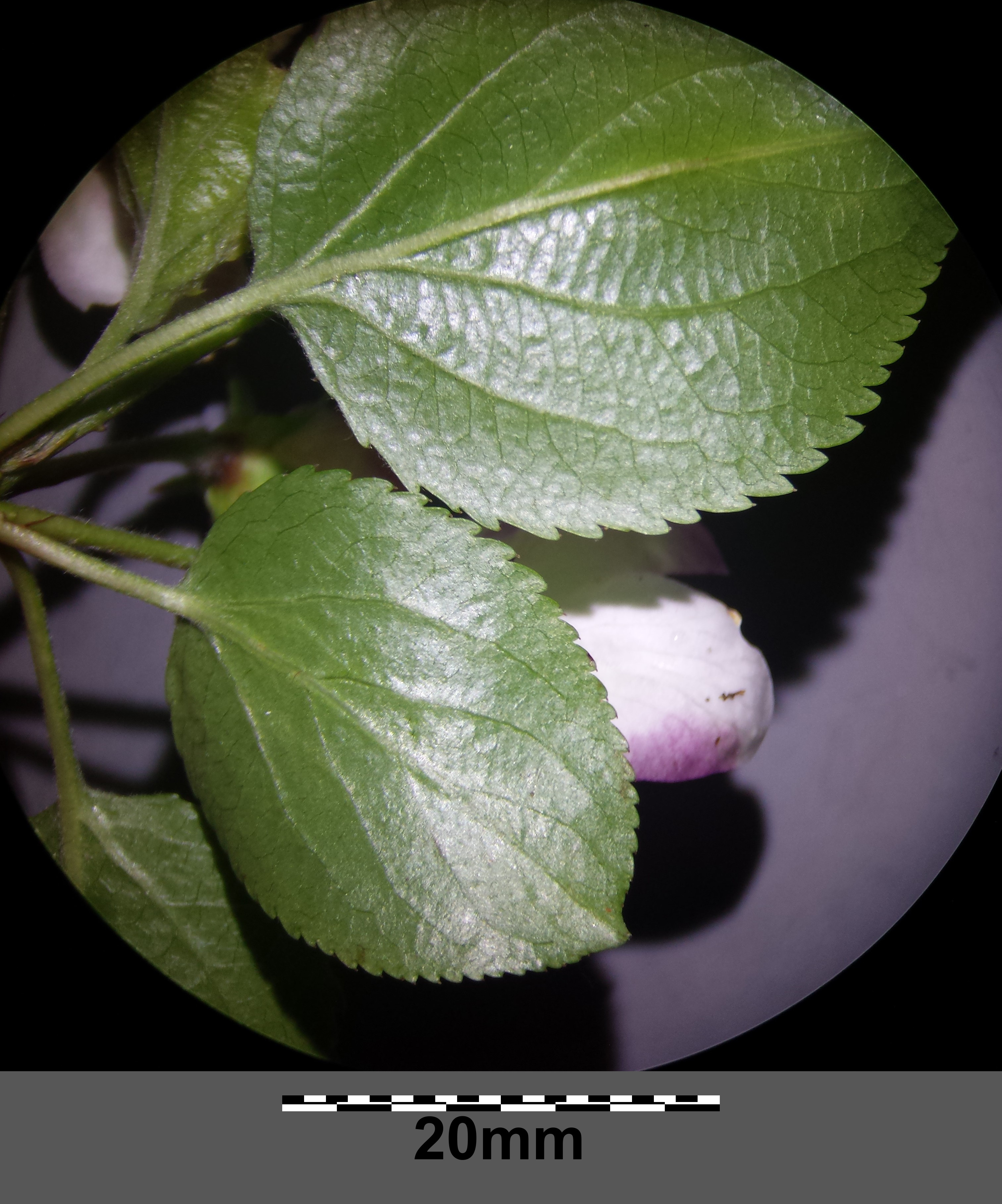 Glabrous bottom sides of leaves Taxonym: Malus sylvestris ss Fischer et al. EfÖLS 2008 ISBN 978-3-85474-187-9 Location: Rohrwald, district Korneuburg, Lower Austria - ca. 300 m a.s.l. Habitat: Carpinion betuli